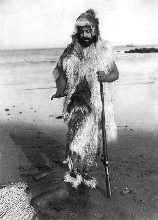 Screenshot of the Robinson Crusoe film of 1913